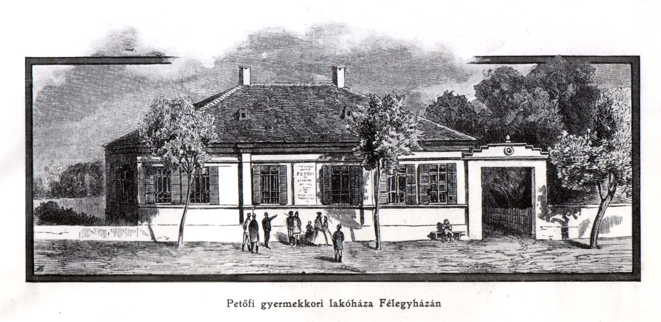 Sándor Petőfi's house in Kiskunfélegyháza.